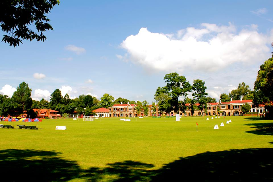 FC Barcelona football camp at The Doon School, India.